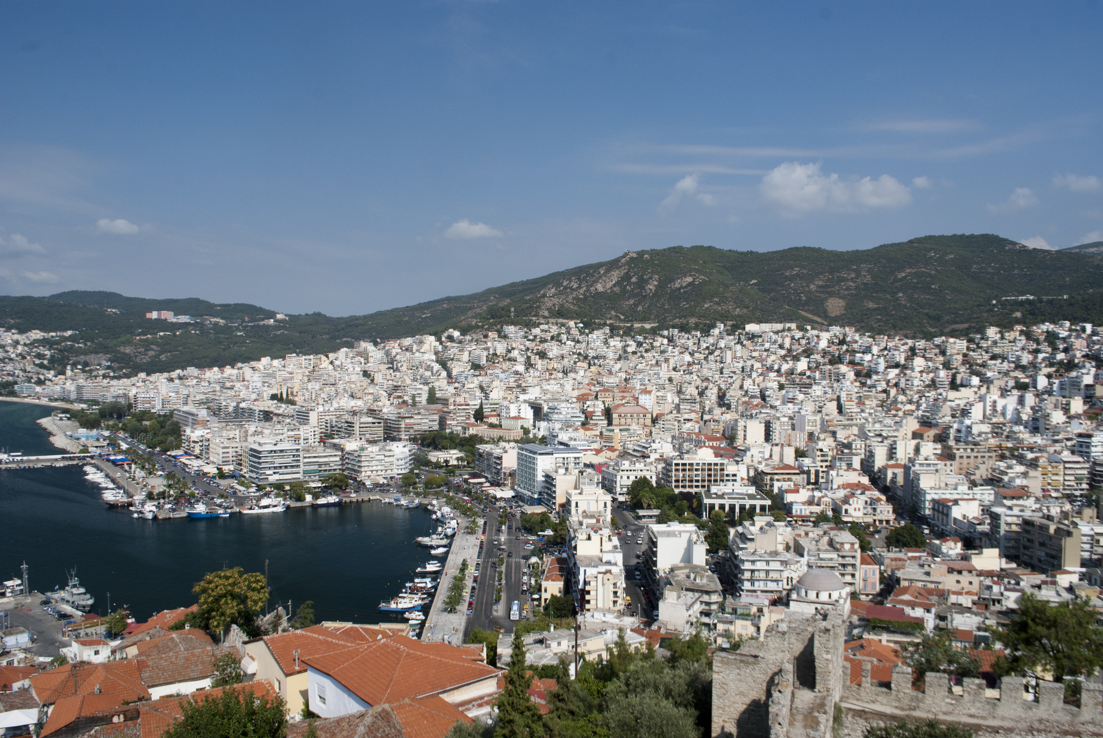 View of Kavala town